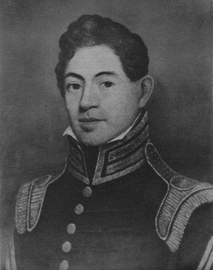 Benjamin K. Pierce, U.S. Army Colonel, brother of President Franklin Pierce